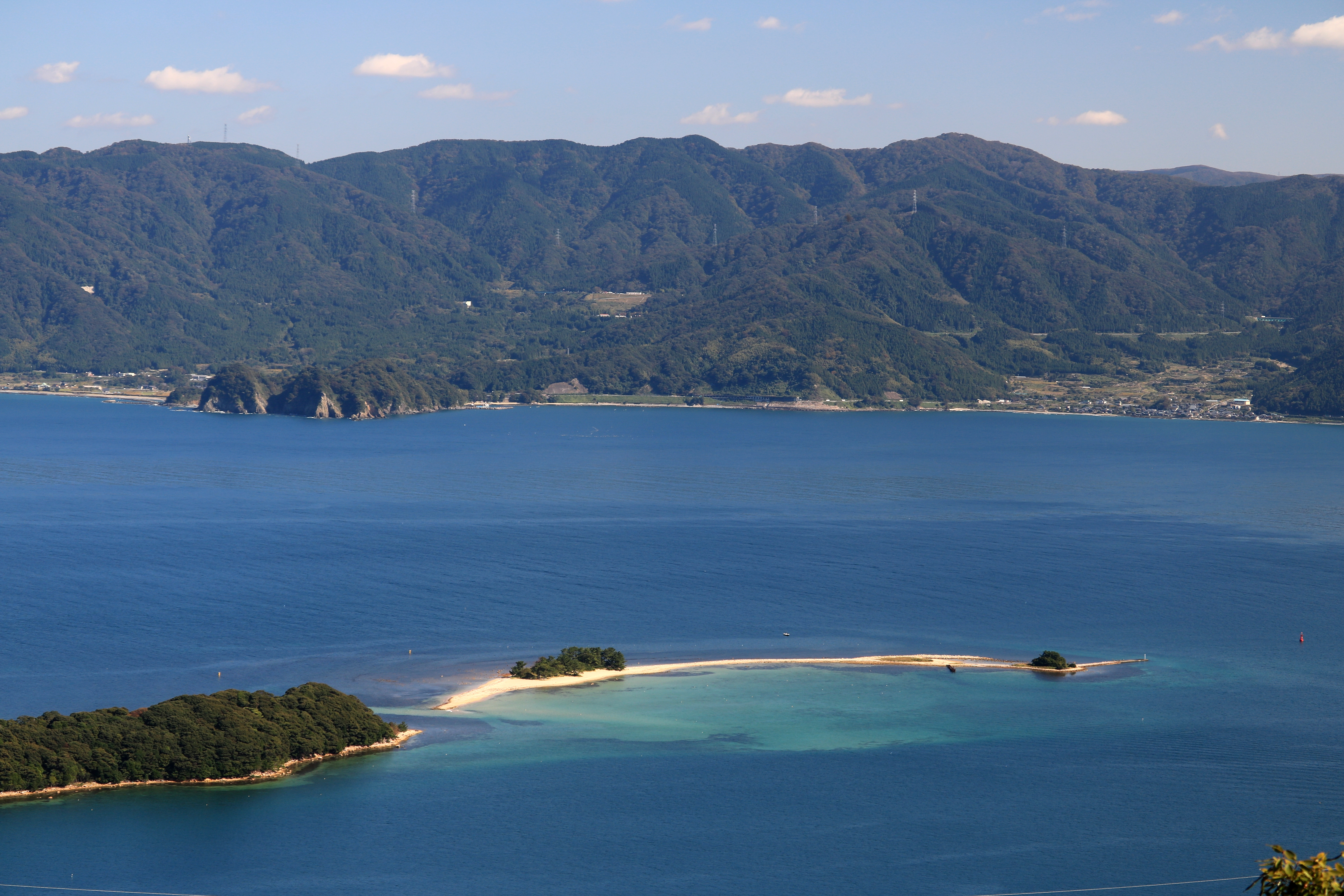 Mizu Island seen from Mount Sazae in Tsuruga, Fukui prefecture, Japan.